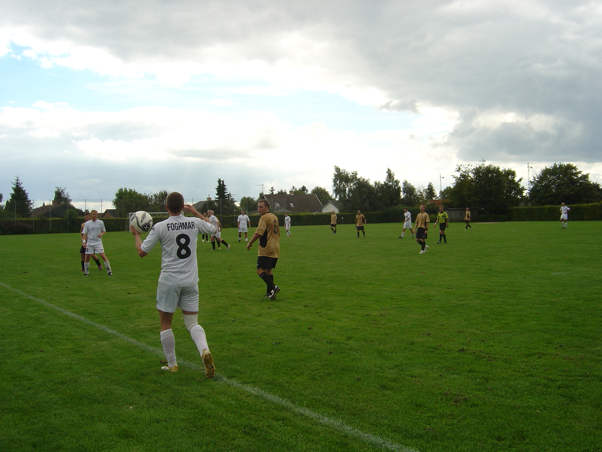 Tårnby FF (gold/black) vs. Olympia ÅK (white) - a match at the danish 8th level (KBU Serie 2) of Danish association football (soccer) taking place on 18 August 2007 at Pile Ground, home ground for Tårnby FF located in Tårnby on Amager. Seen from the northeast side.